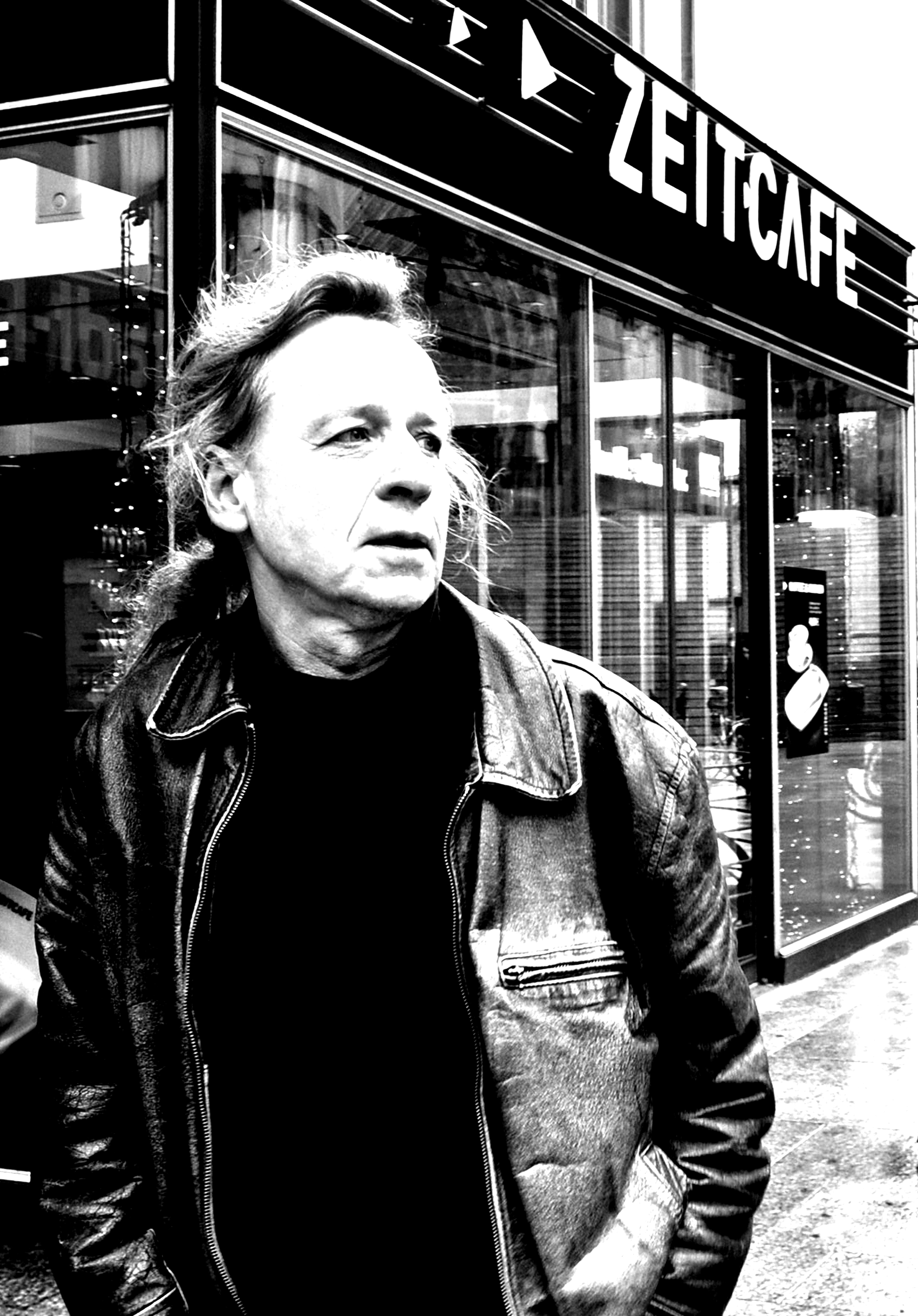 roger matura; cologne jan2012